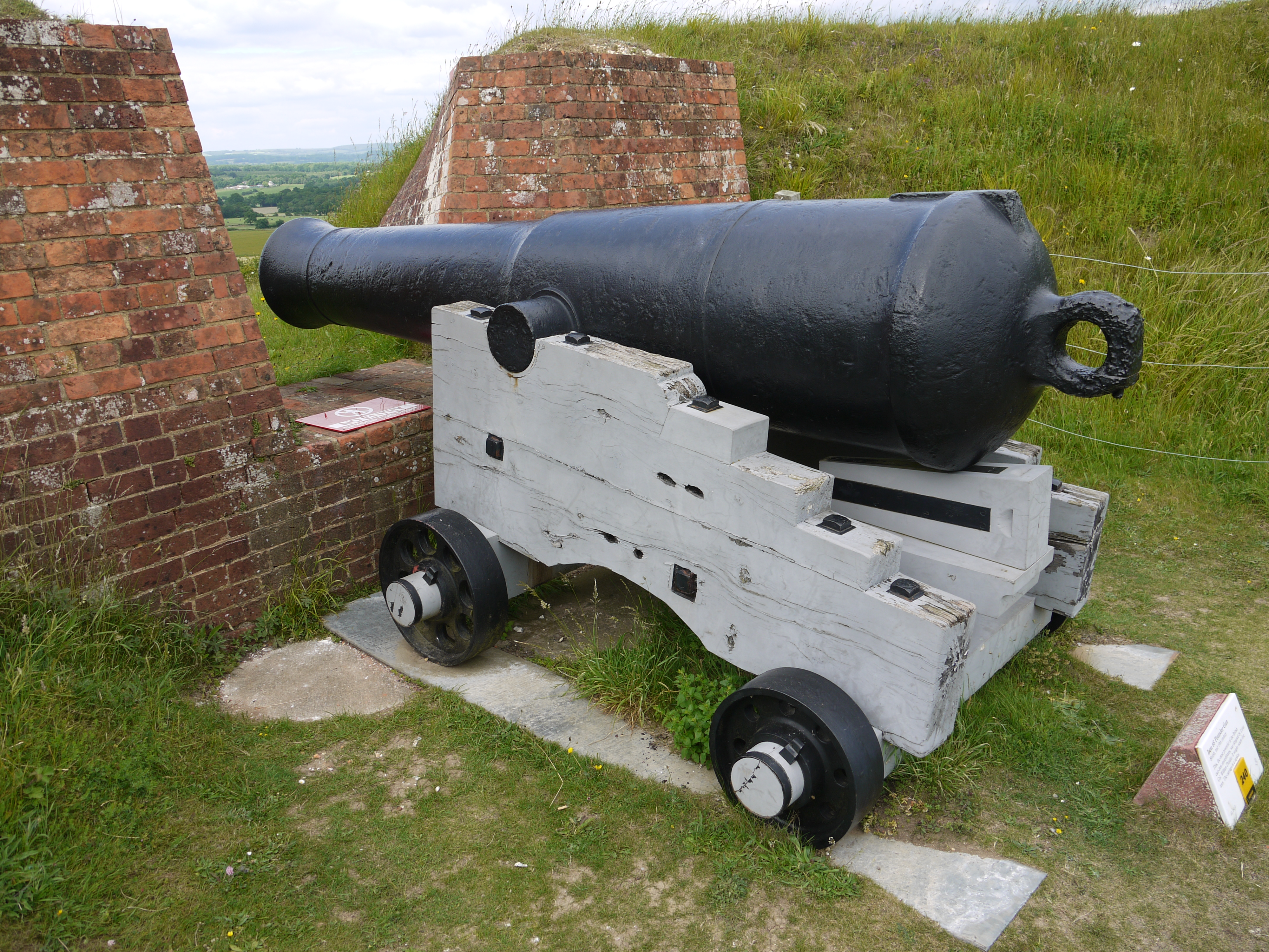 Photo of a 68 pounder gun on a replica carriage at the Royal Armouries Fort Nelson.